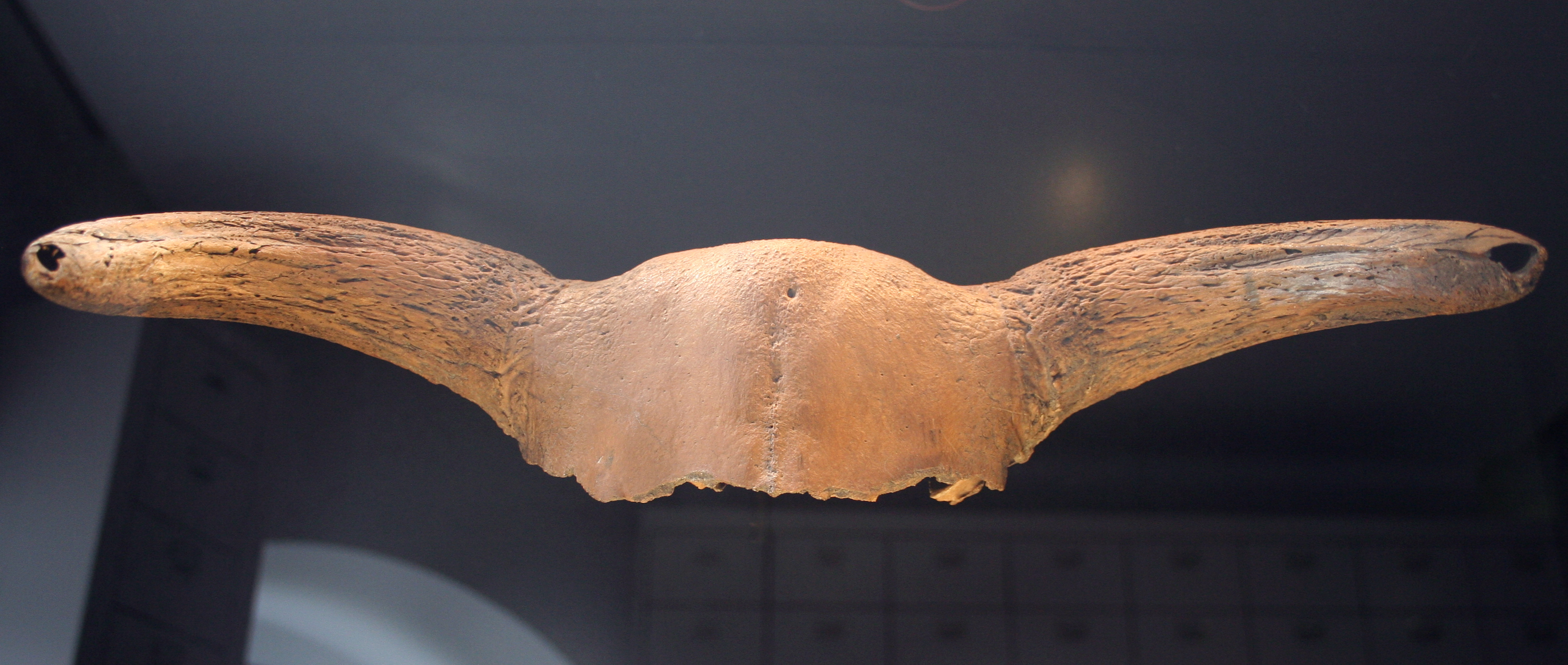 Bucranium from the Earthwork Heilbronn-Klingenberg (Michelsberg culture, 4400–3500 BC); State museum Württemberg, Stuttgart